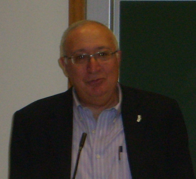 Prof. Manuel Trajtenberg